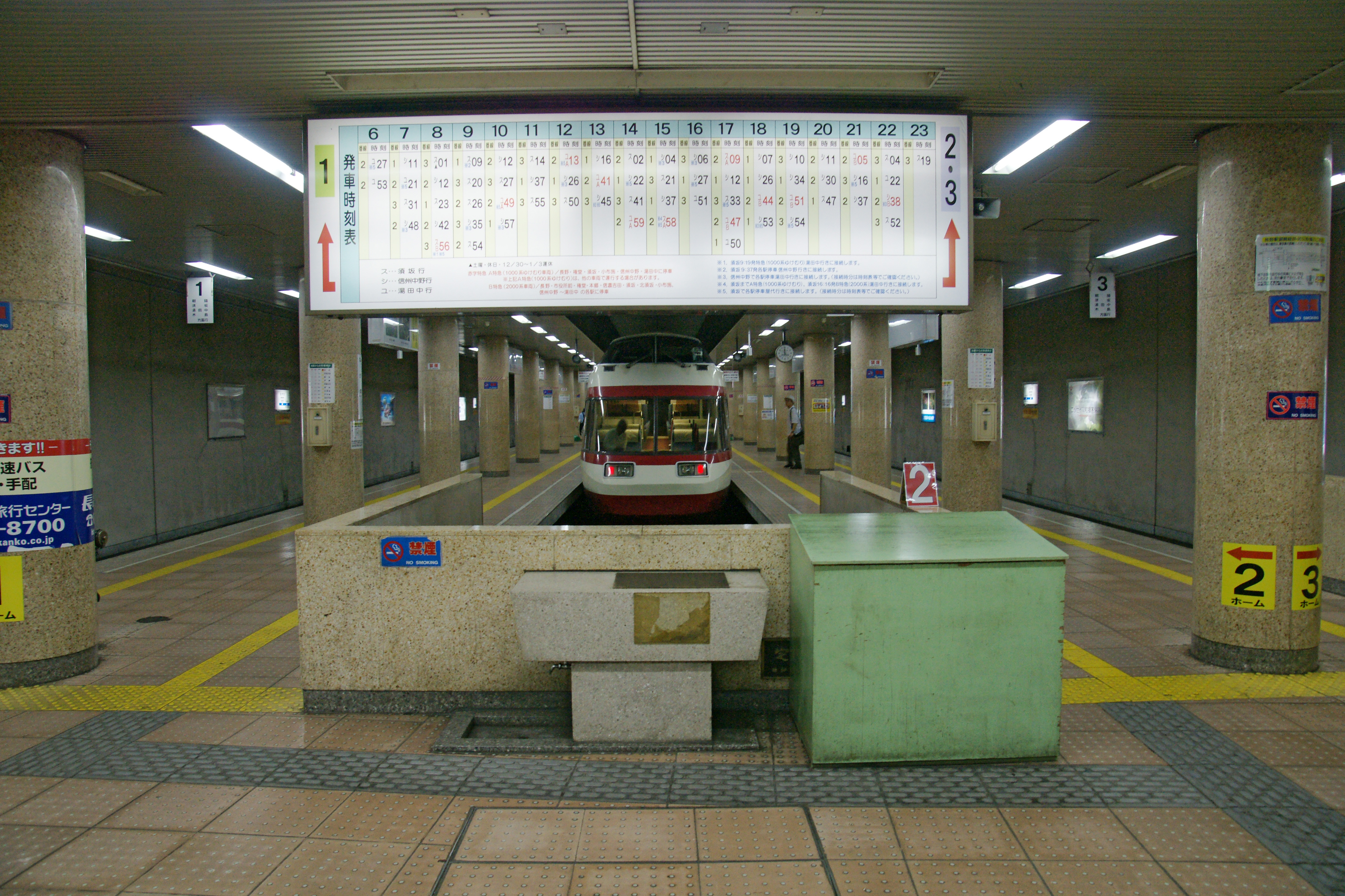 Nagano Station of Nagano Electric Railway in Nagano, Nagano prefecture, Japan